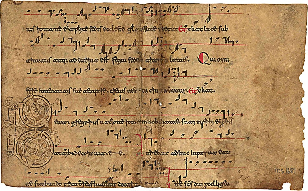 Beneventan music notation showing diastamatic neumes and a single-line staff. Montecassino, Italy, 2nd half of 12th century